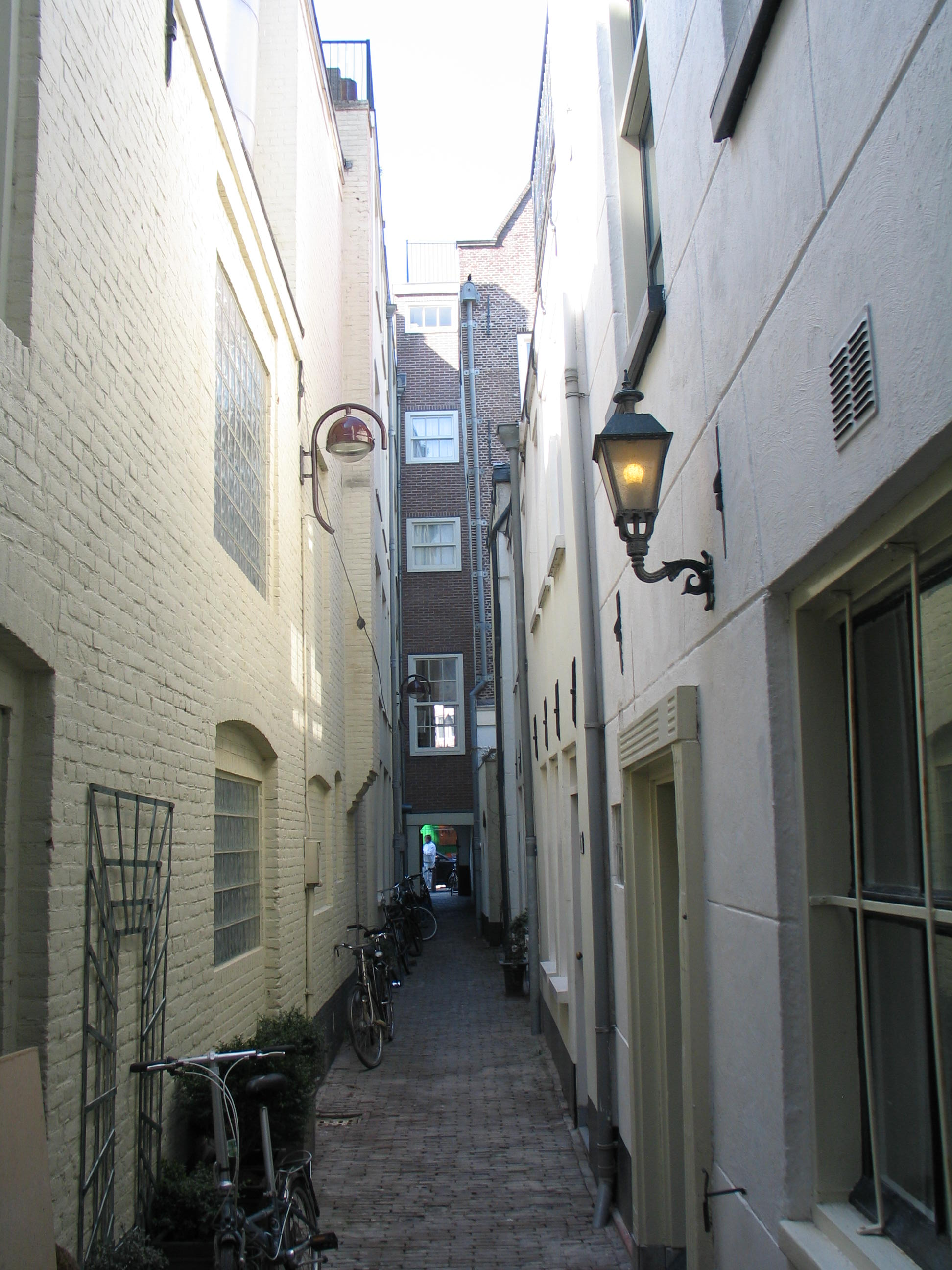 Alley on Prinsengracht where Gabriel Metsu used to live